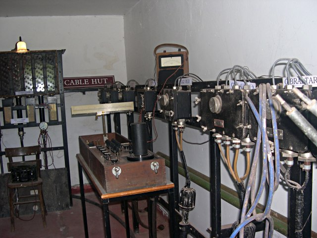 Inside Porthcurno Cable Hut, Cornwall. This was where undersea telegraph cables which came up onto Porthcurno beach from all over the world were terminated and the signals routed onwards via the landline network. The inside of the hut has been preserved as it was. See also 318569.